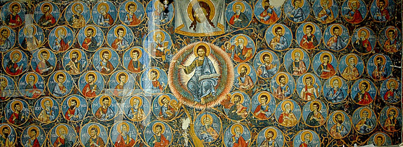 Eratyra Selitsa St Nicholas Church Fresco